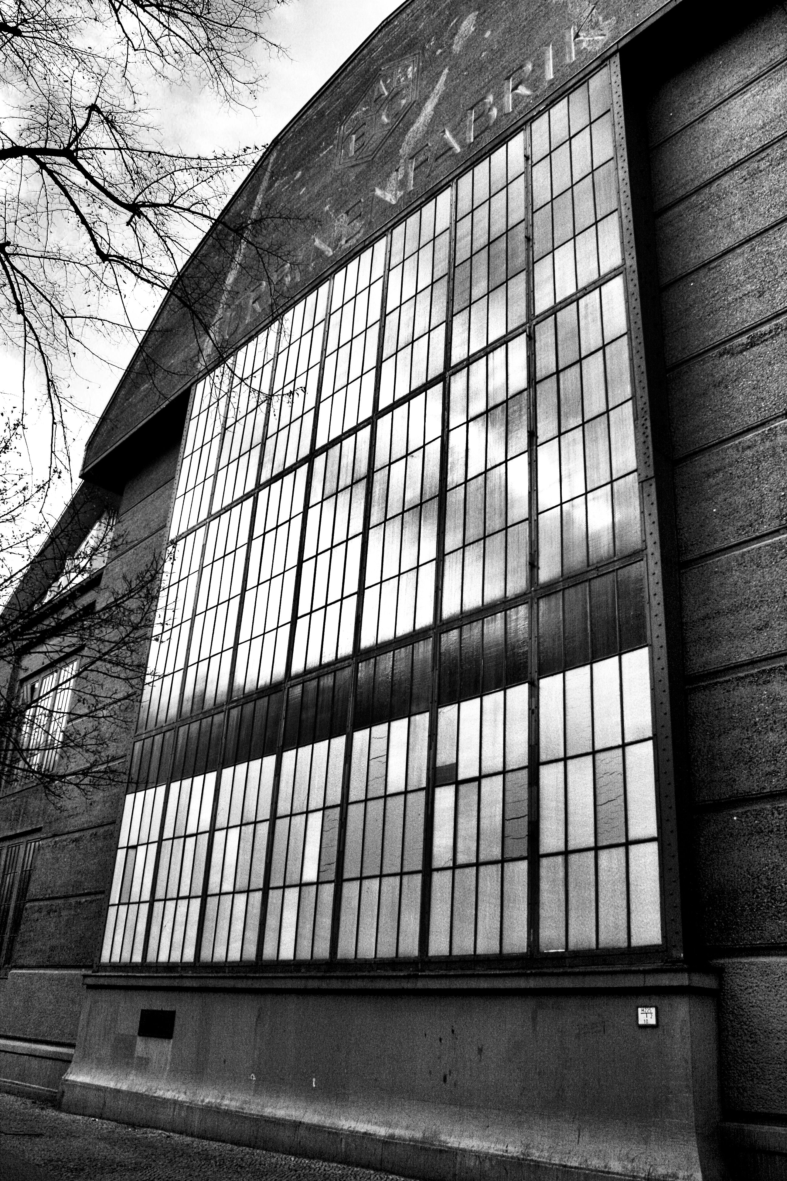 AEG-Turbinenhalle, Berlin, front